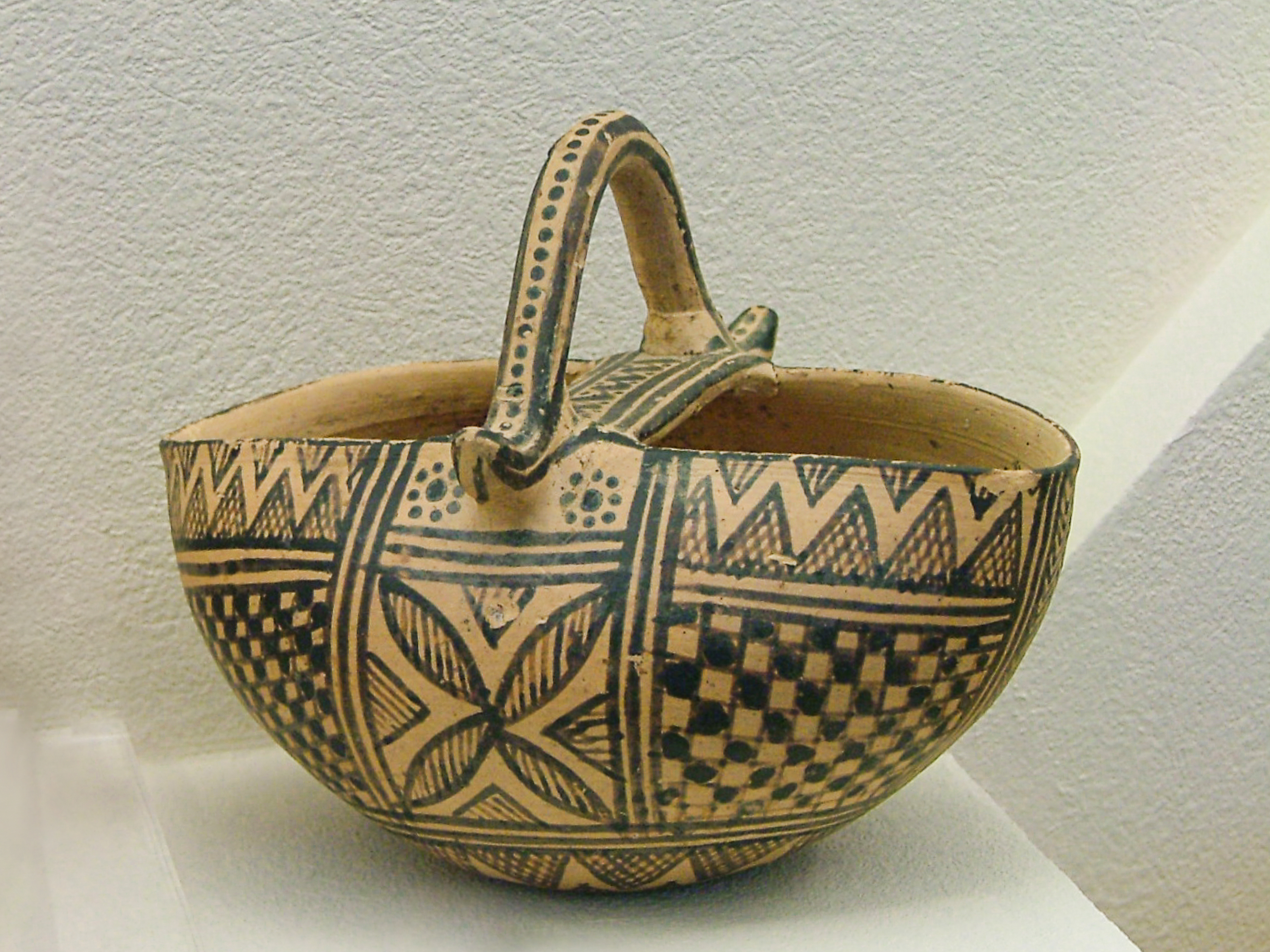 Kalathos. Geometric period. From a child burial (750-700 BC). Inv. T 50/V. Kerameikos Archaeological Museum of Athens.